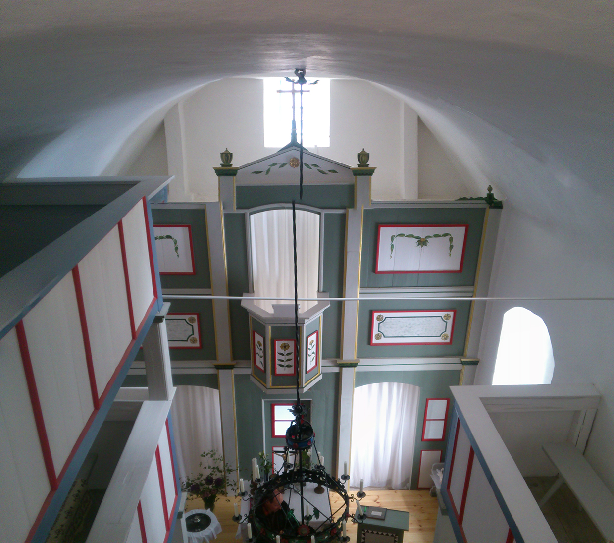 Newly designed interiour of the church on the day of the dedication of the church June 21st 2015